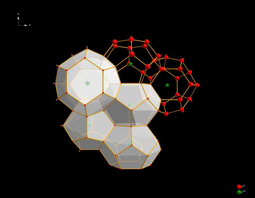 CH4 hydrate, methane hydrate, structure sI.